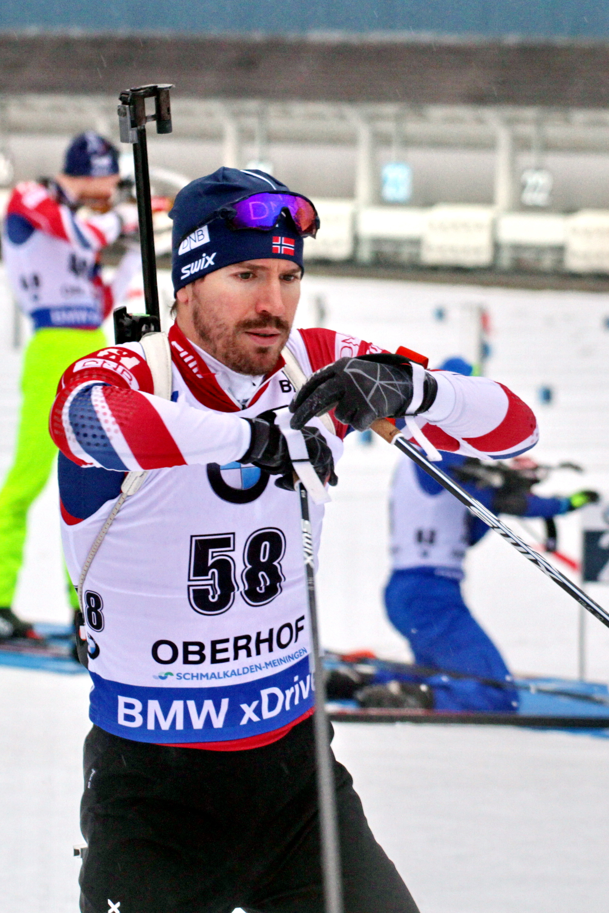 2018 Oberhof Biathlon World Cup - Sprint Men